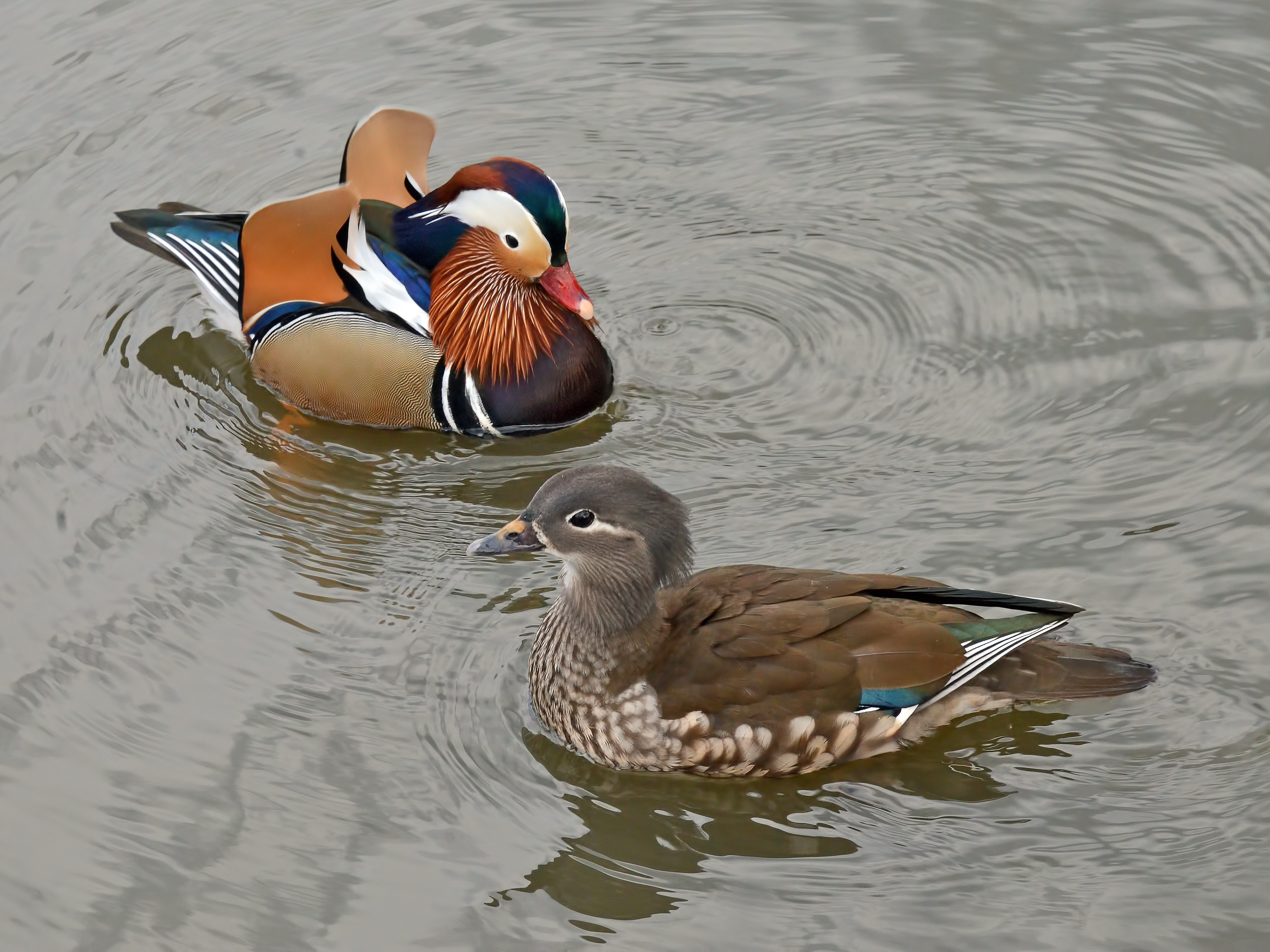 Mandarin Duck couple at Kew Gardens, London, UK.